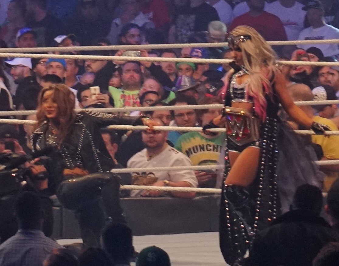 Alexa Bliss enters WrestleMania 34 as WWE Raw Women's Champion.